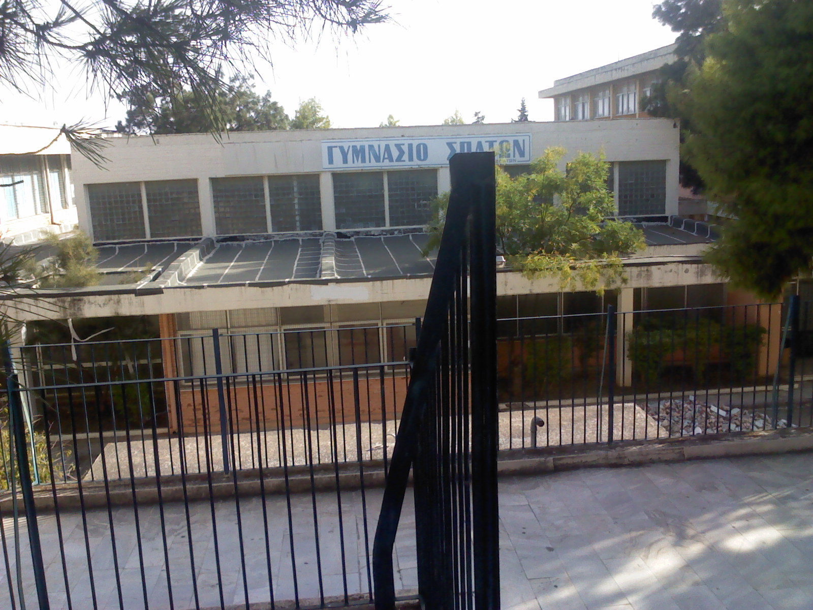 Gymnasio Spaton